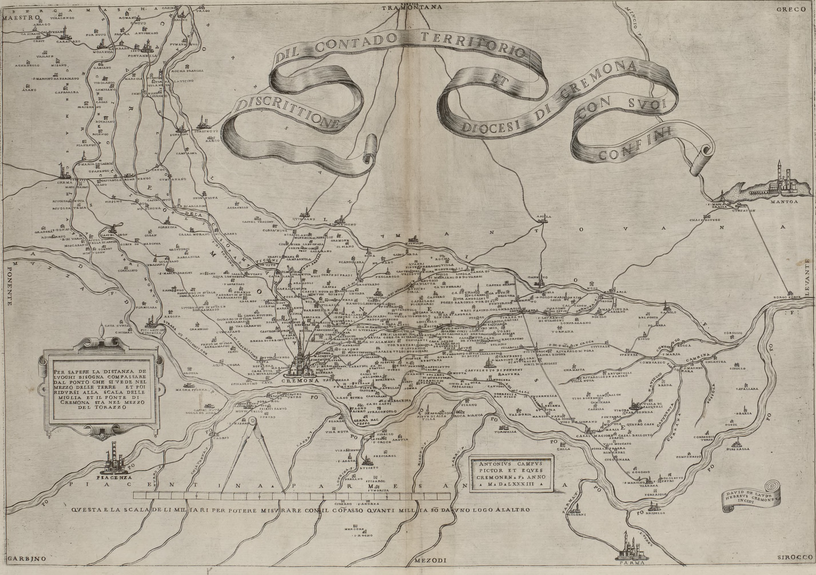 Title: Cremona fedelissima citta et nobilissima colonia de Romani : rappresentata in disegno col svo contado et illvstrata d'vna breve historia delle cose piv notabili appartenenti ad essa et de i ritratti natvrali de dvchi et dvchesse di Milano e compendio delle lor vite Year: map: 1583, book: 1585 (1580s) Authors: Campi, Antonio, 1522 or 3-1587 Carracci, Agostino, 1557-1602 Da Lodi, David, 16th cent Subjects: Publisher: In Cremona : In casa dell'avttore, per Hippolito Tromba & Hercoliano Bartoli Text Appearing Before Image: % m JAESTRO^ Text Appearing After Image: SJROCCO t Blank ìnserted to ensure correct page posìtìon